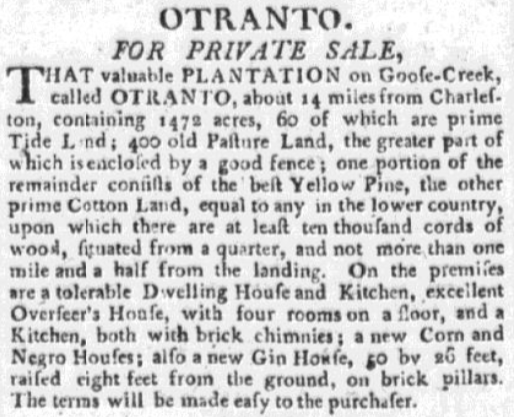 Otranto Plantation was advertised for sale on September 19, 1801, in the Charleston Times.